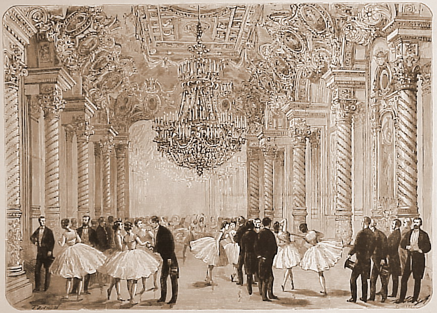 Paris Opera: Foyer de la danse